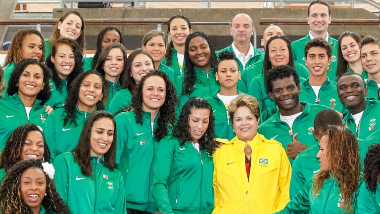 Dilma Rousseff and part of the Brazilian Olympic delegation in the Crystal Palace National Sports Centre.